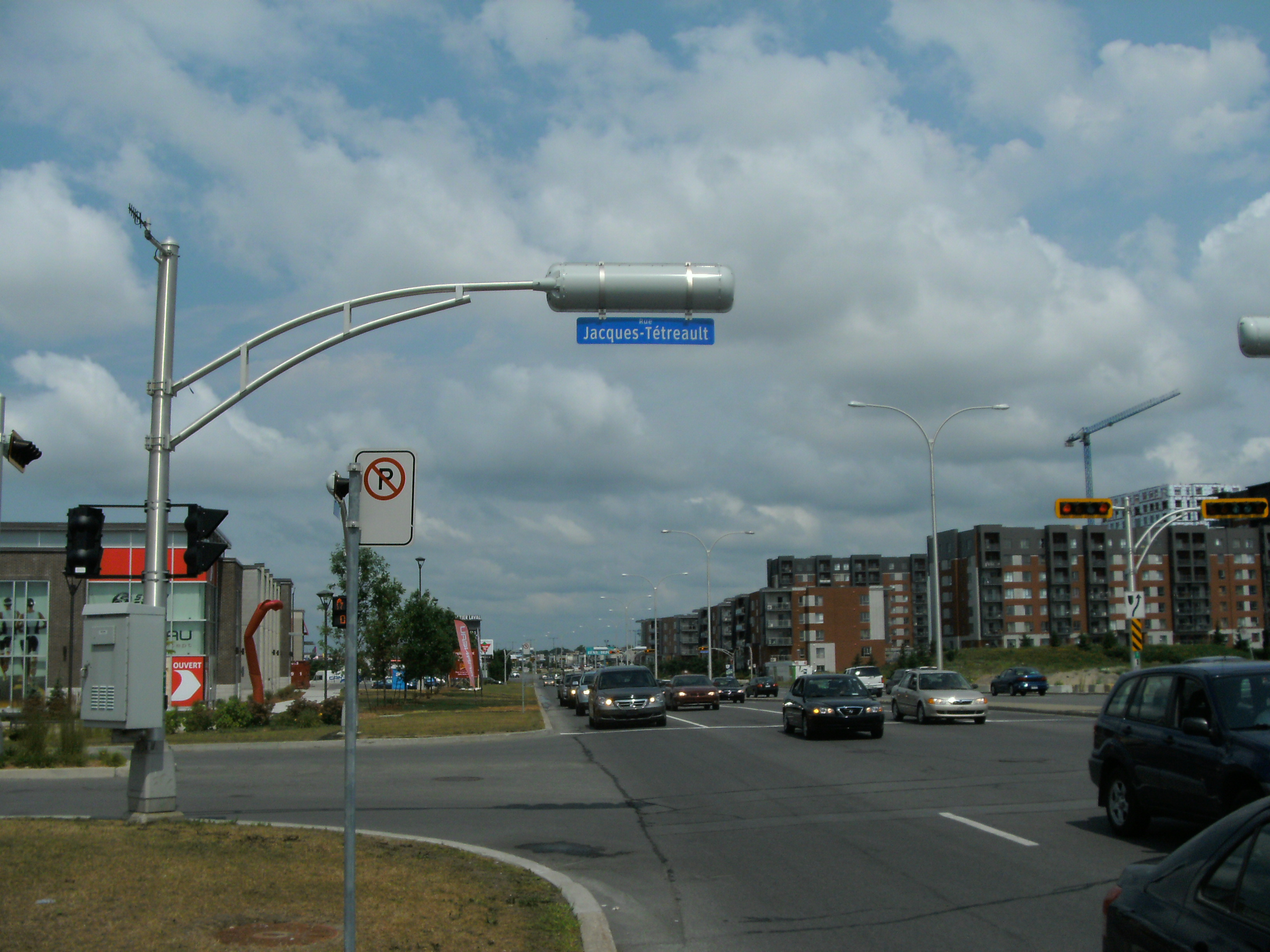 Street sign identifying rue Jacques-Tétreault in Laval, Quebec, Canada, named after Jacques Tétreault (born 8 April 1929), former mayor and member of the Canadian House of Commons.